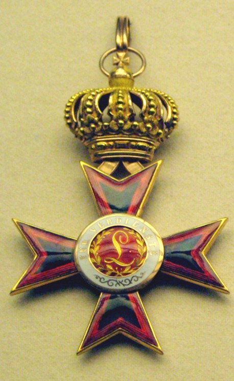 The big cross of Ludwigsorden (Order of Saint Louis). Mid. 19 c. Hessian